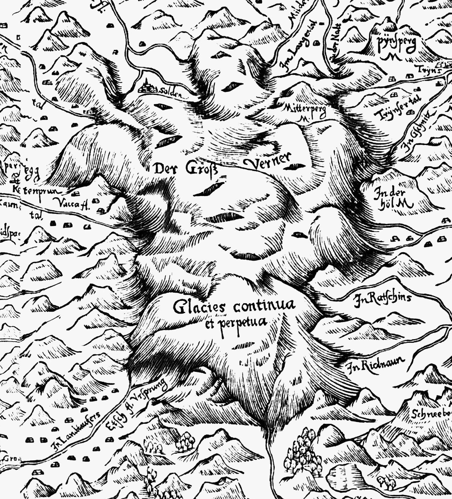 The "Grosse Ferner" (large glacier) in the Ötztal alps; detail of Warmund Ygl's map of Tyrol (1605)